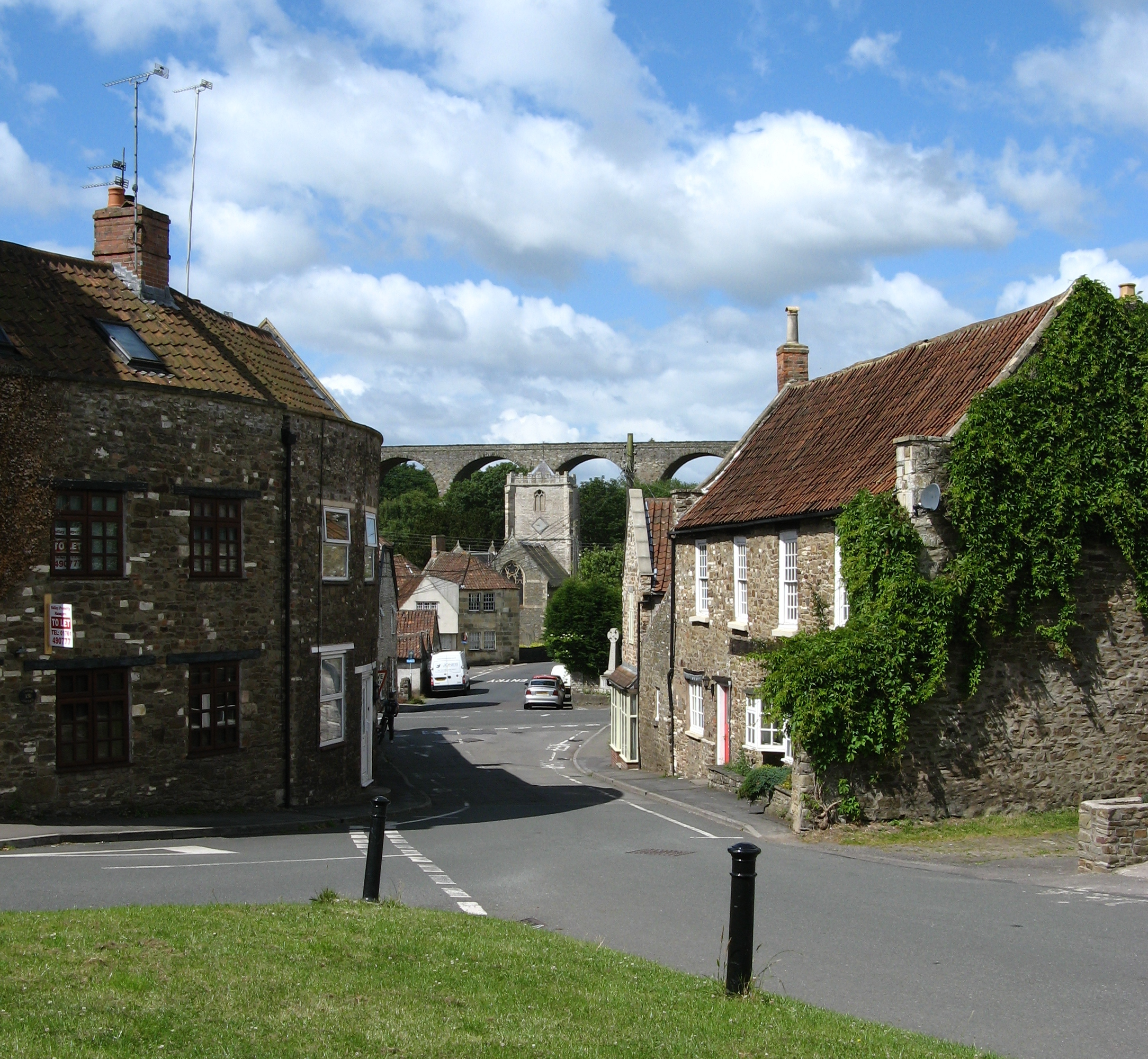 High Street, Pensford, Somerset, from lock-up. St Thomas A Beckett Church and Pensford Viaduct in distance.